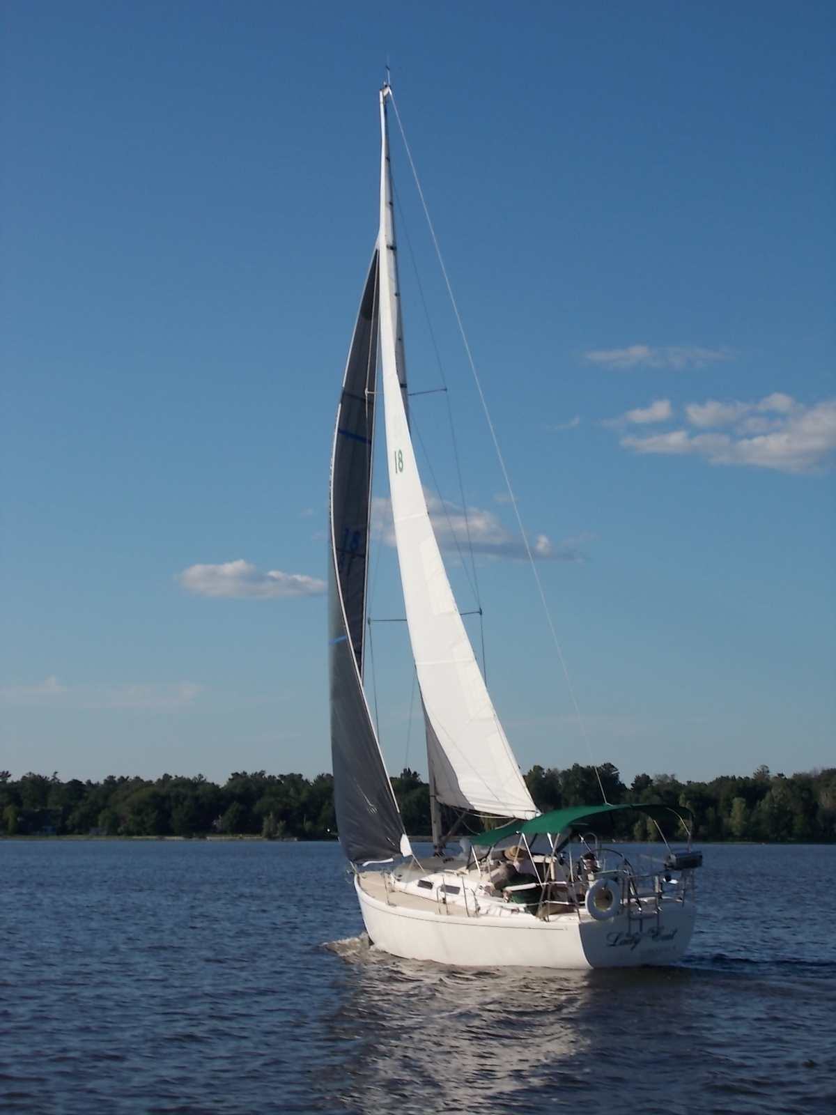 J32 Sailboat Lady Cait on Lac Deschênes, part of the Ottawa River, Ottawa, Ontario, Canada